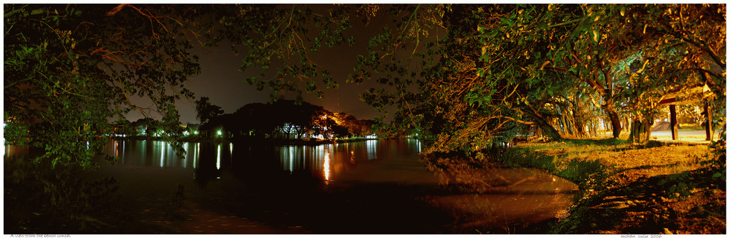 One of the seven lakes of the Indian Institute of Management Calcutta campus.